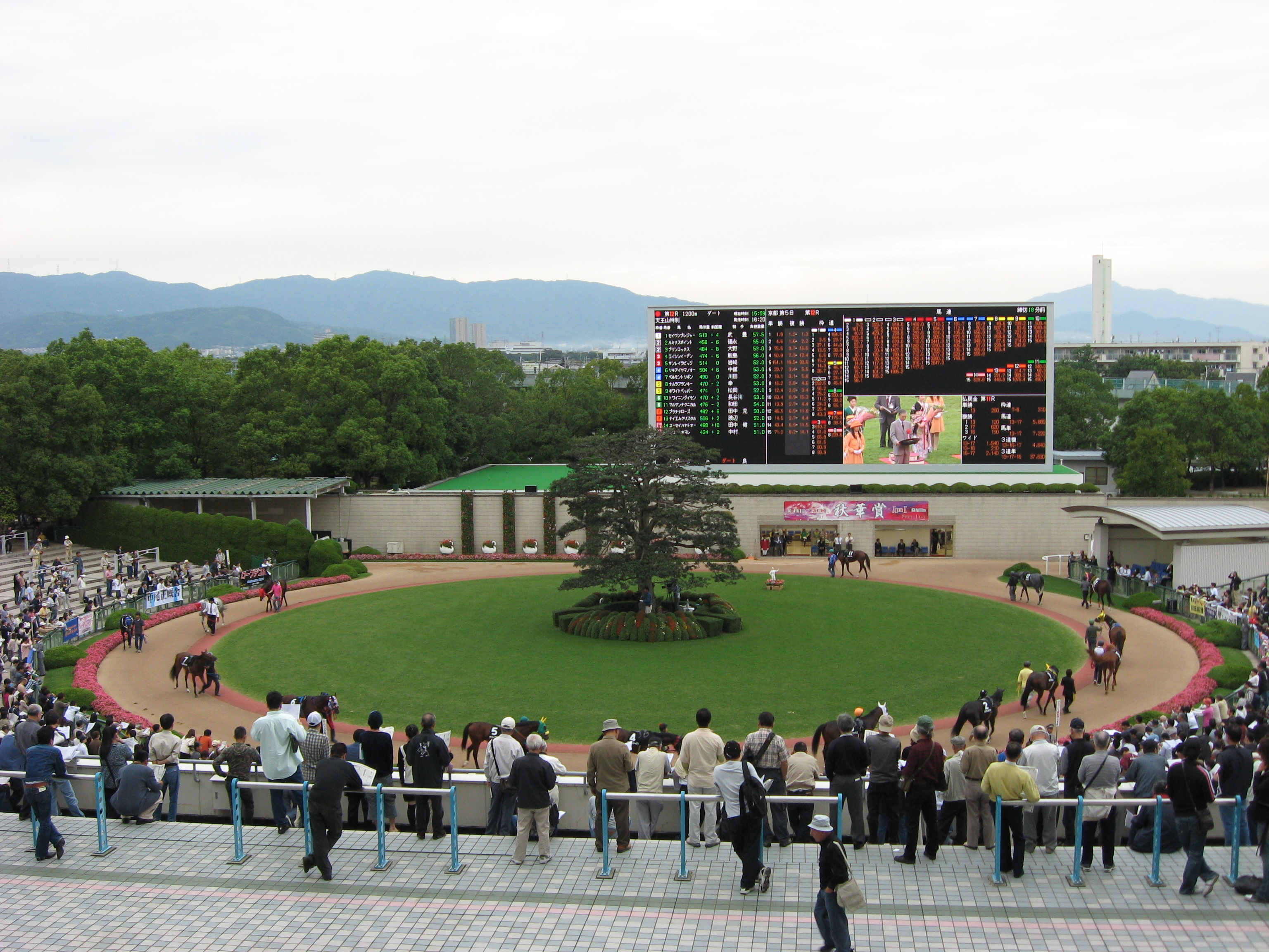 Kyoto Racecourse Paddock